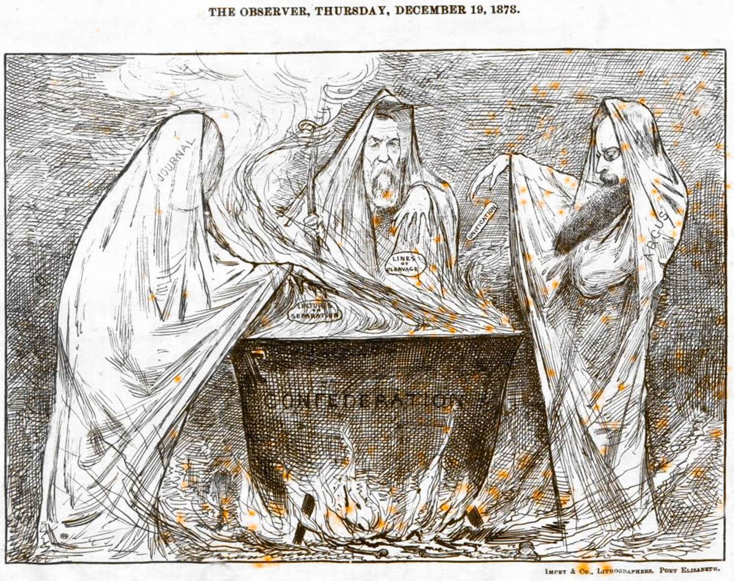 Cartoon from the eastern province Observer, Port Elizabeth, by Charles J Barber. Cartoon on the British project to confederate southern Africa and regional reactions to this. Themed on the three witches of Macbeth. Depicted are the two main press outlets - the Argus of the western cape represented by Patrick McLoughlin on the right and the Grahamstown Journal of the eastern cape represented by Robert Godlonton on the left (The highly litigious Godlonton is shown faceless). In between them is the Cape's anti-confederation Prime Minister John Molteno. Dated 19 December 1878.